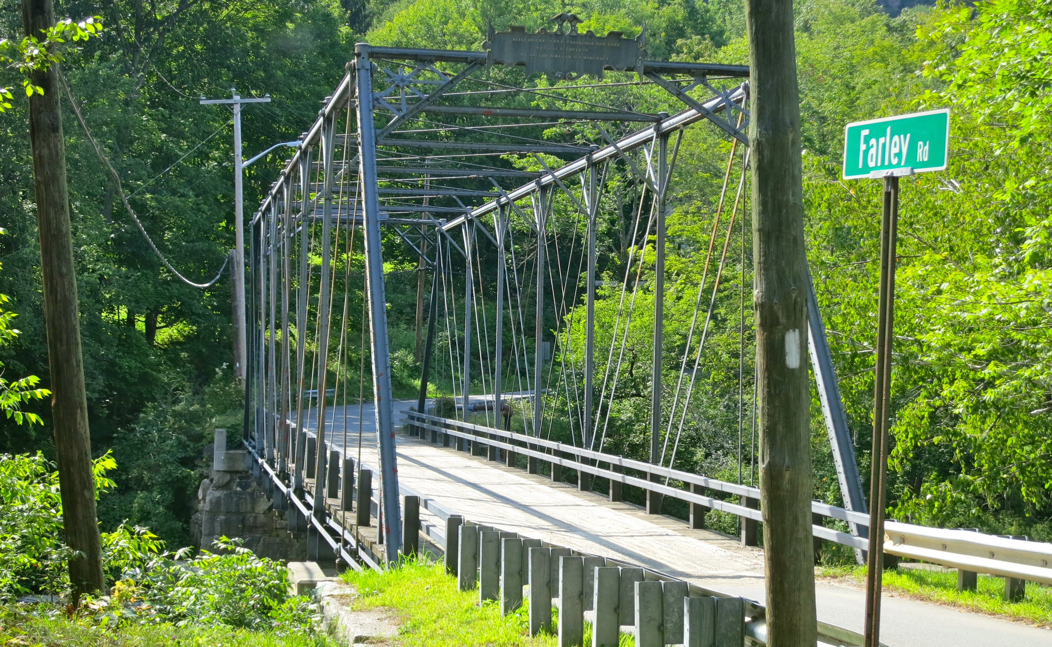 One lane bridge over Millers River